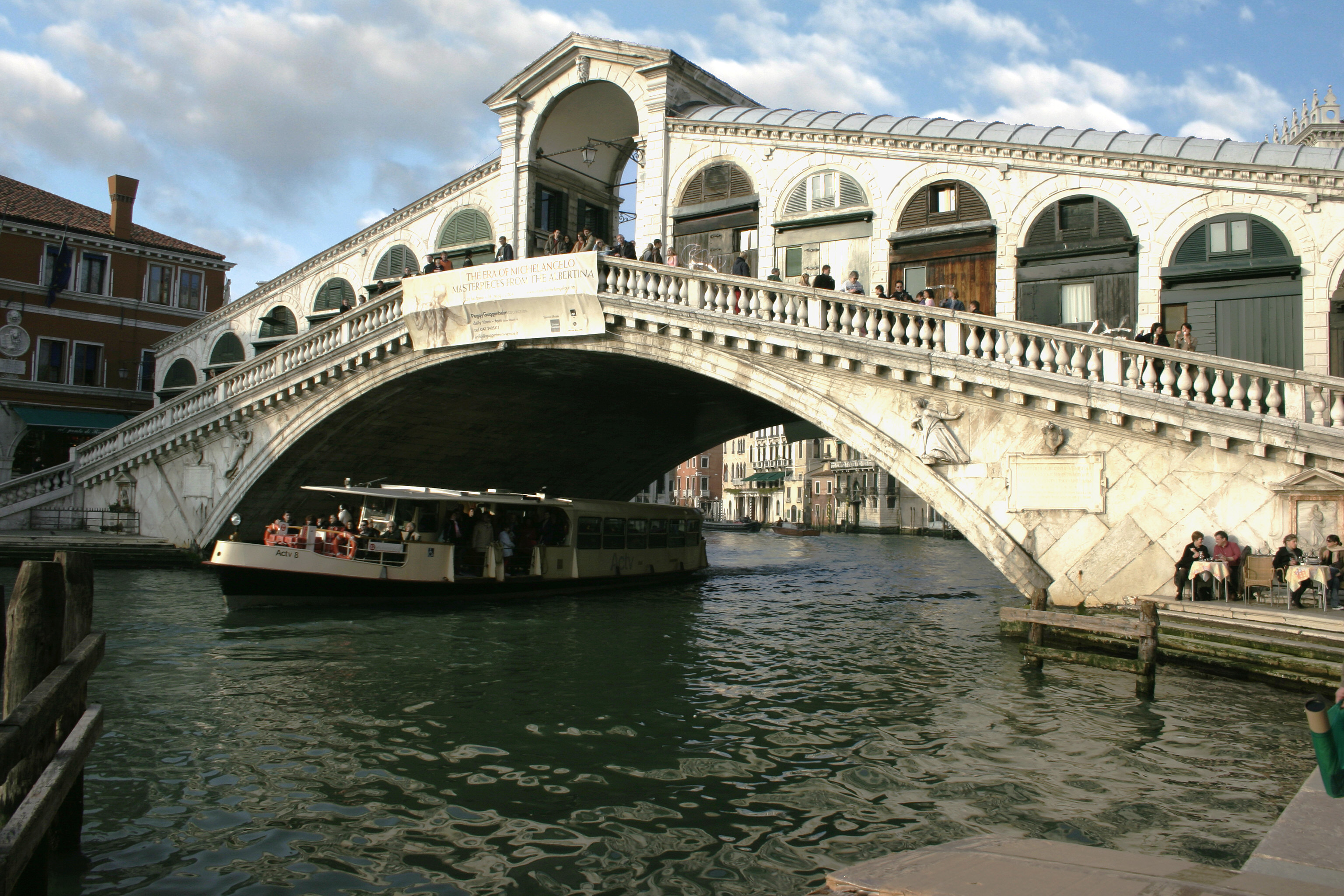 Venice - Rialto Bridge